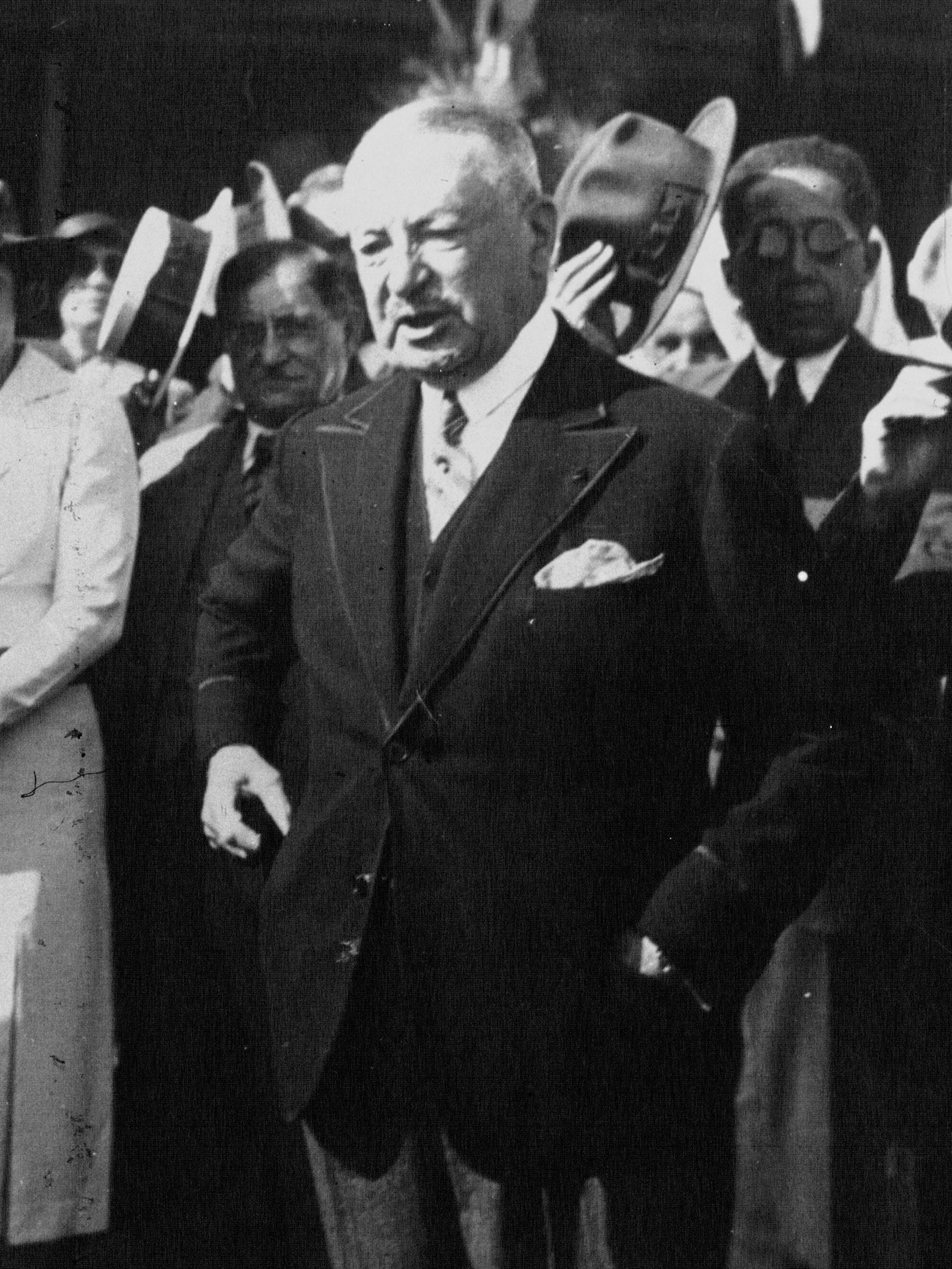 Lucien Saint, French Resident General in Morocco (1929–1933), seen here in Rabat in 1932. Saint had previously been Resident General in Tunisia (1921–1929).